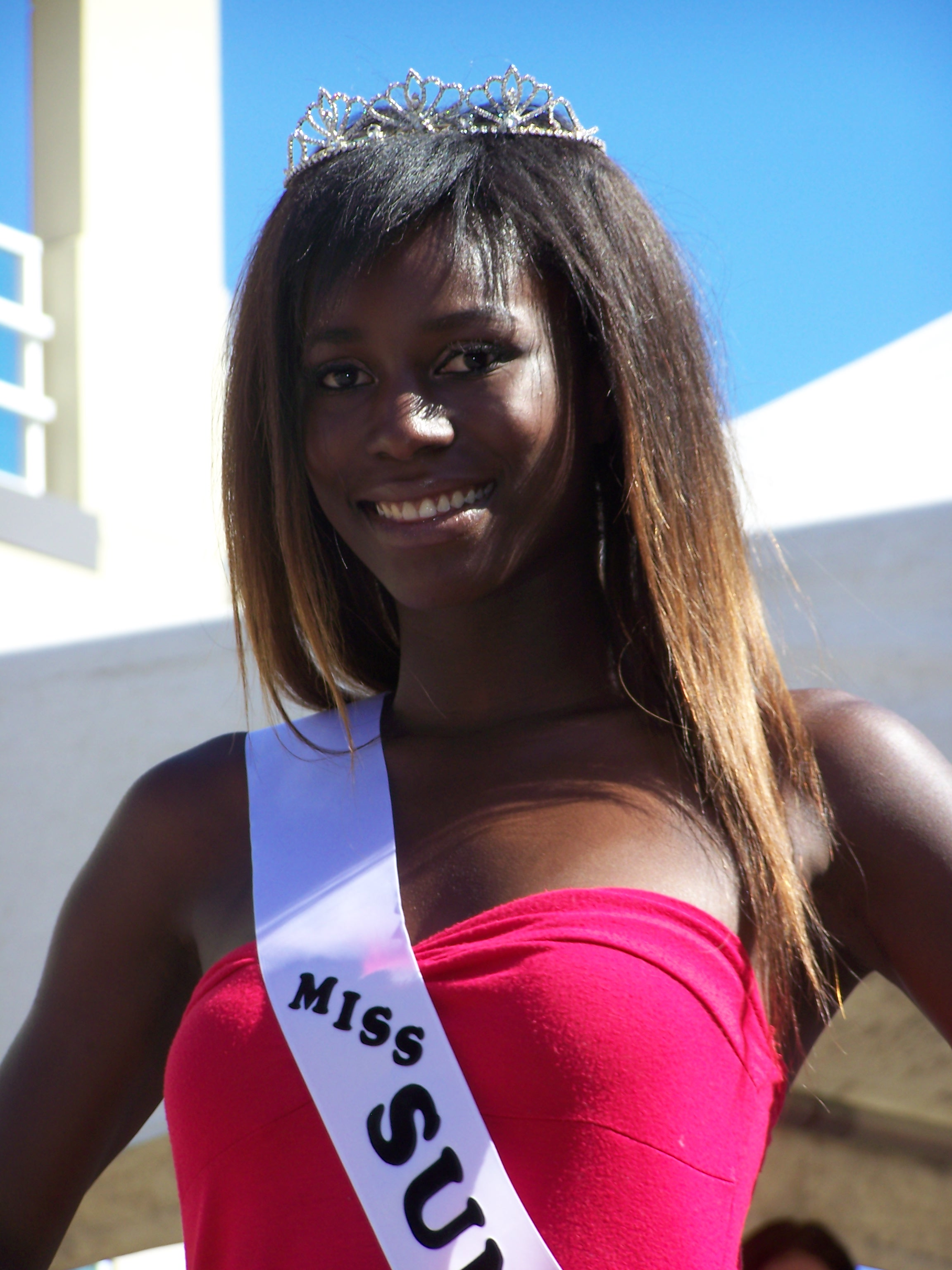 Adwoa Yamoah winning the title of Miss Sun and Salsa 2007 in Calgary, Alberta, Canada on July 22, 2007.